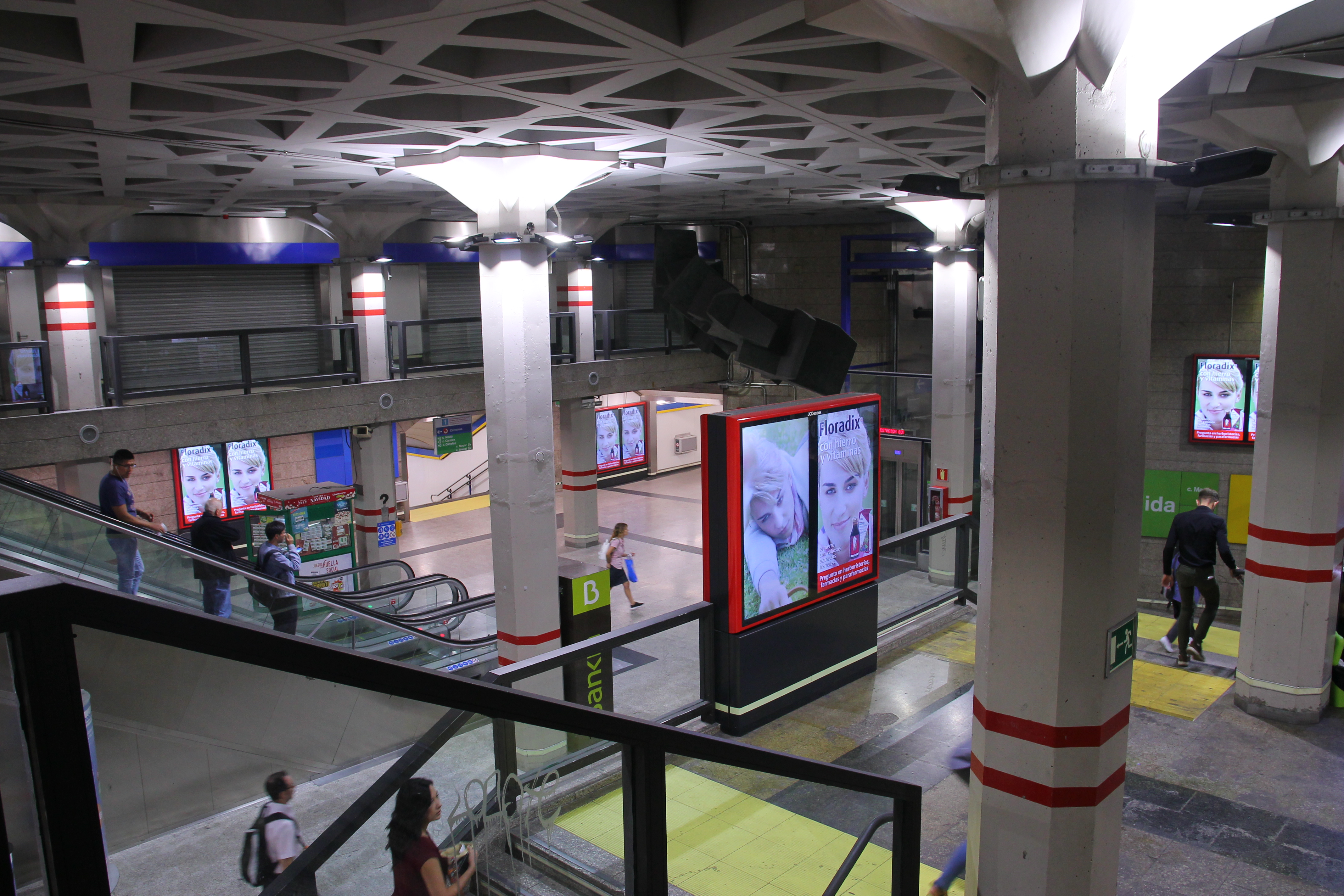 Estación de Sol